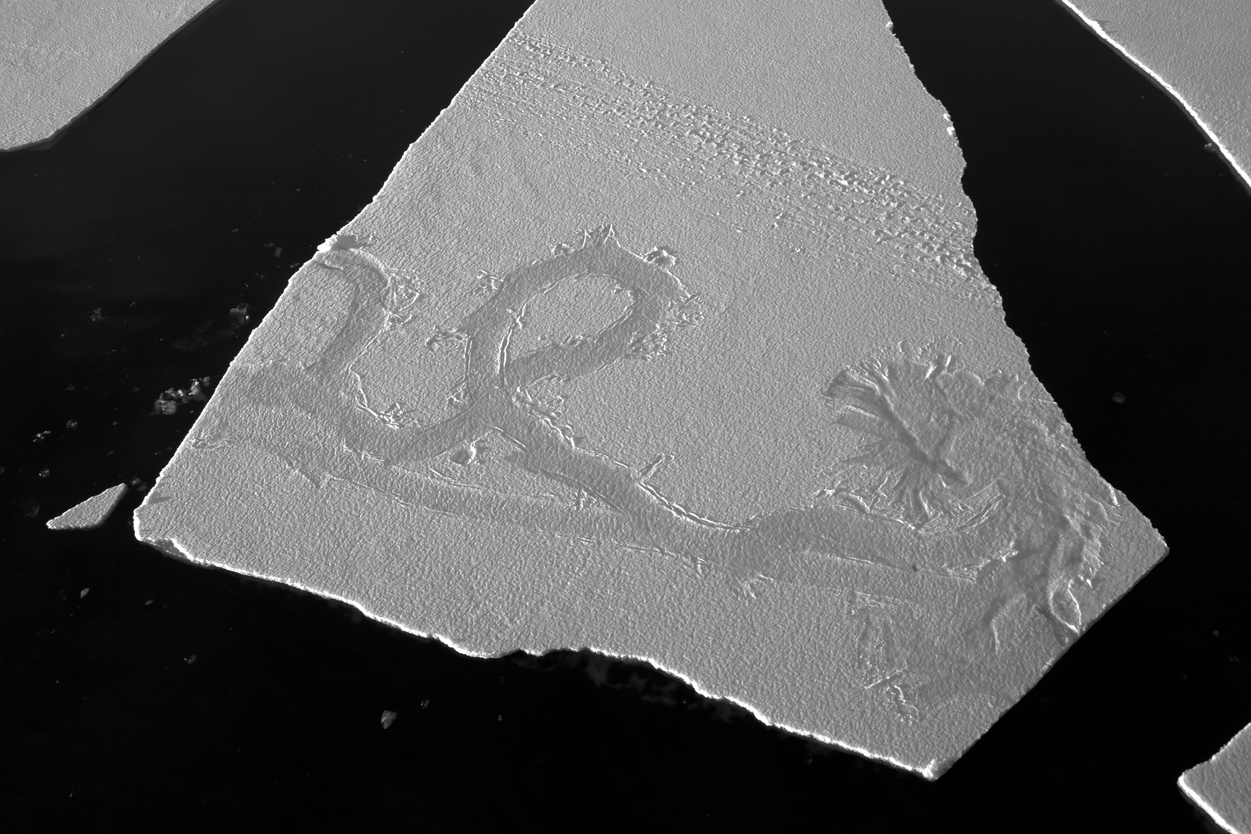 Seal tracks on Antarctic ice floe, seen from above.